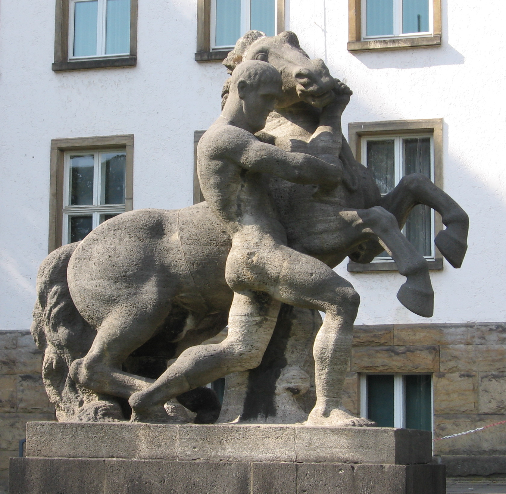 Statue in front of the Bundessozialgericht (German for Federal Social Court) in Kassel. The sculptor is Joseph Wackerle.